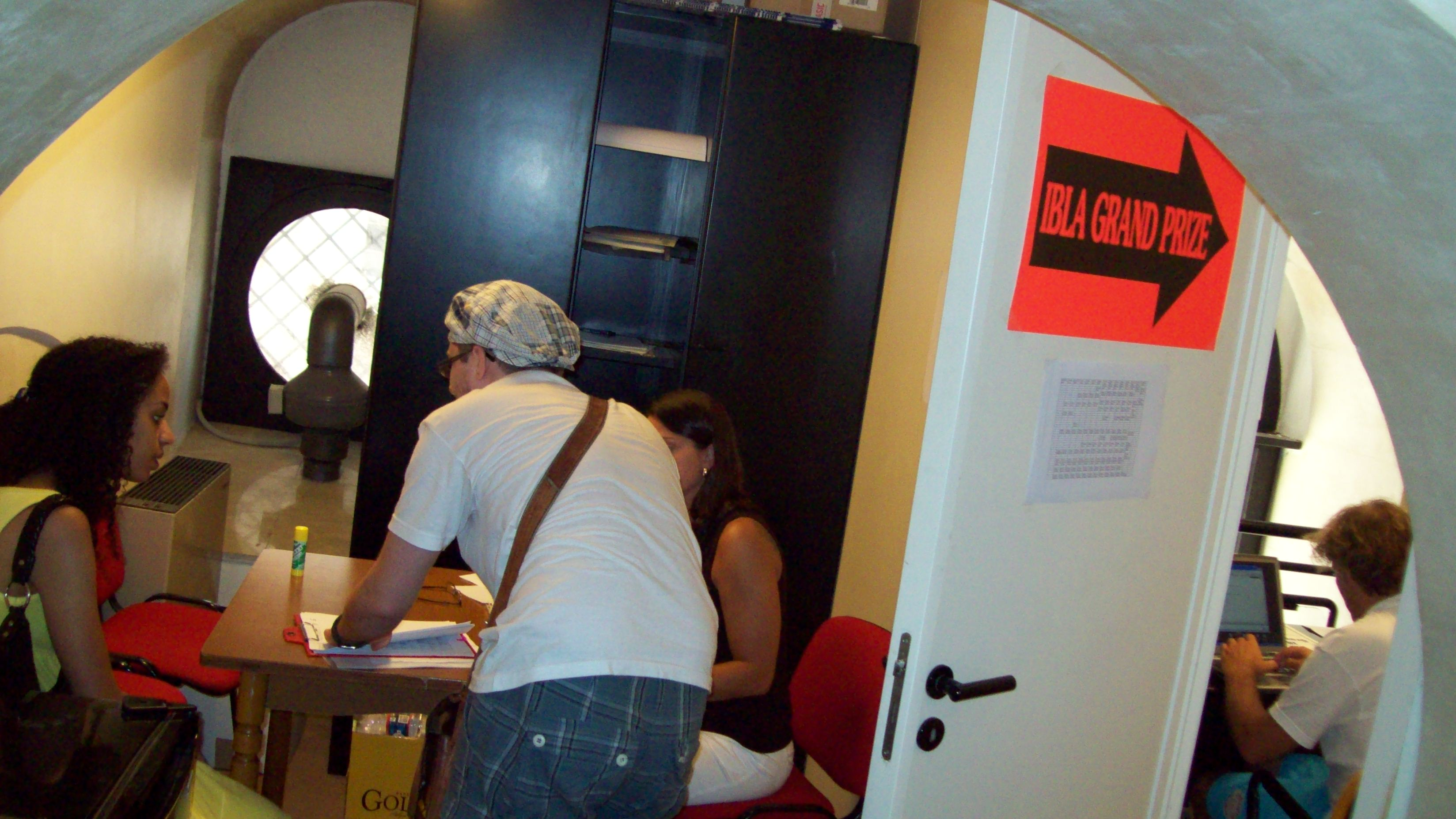 ibla fundation office in ragusa